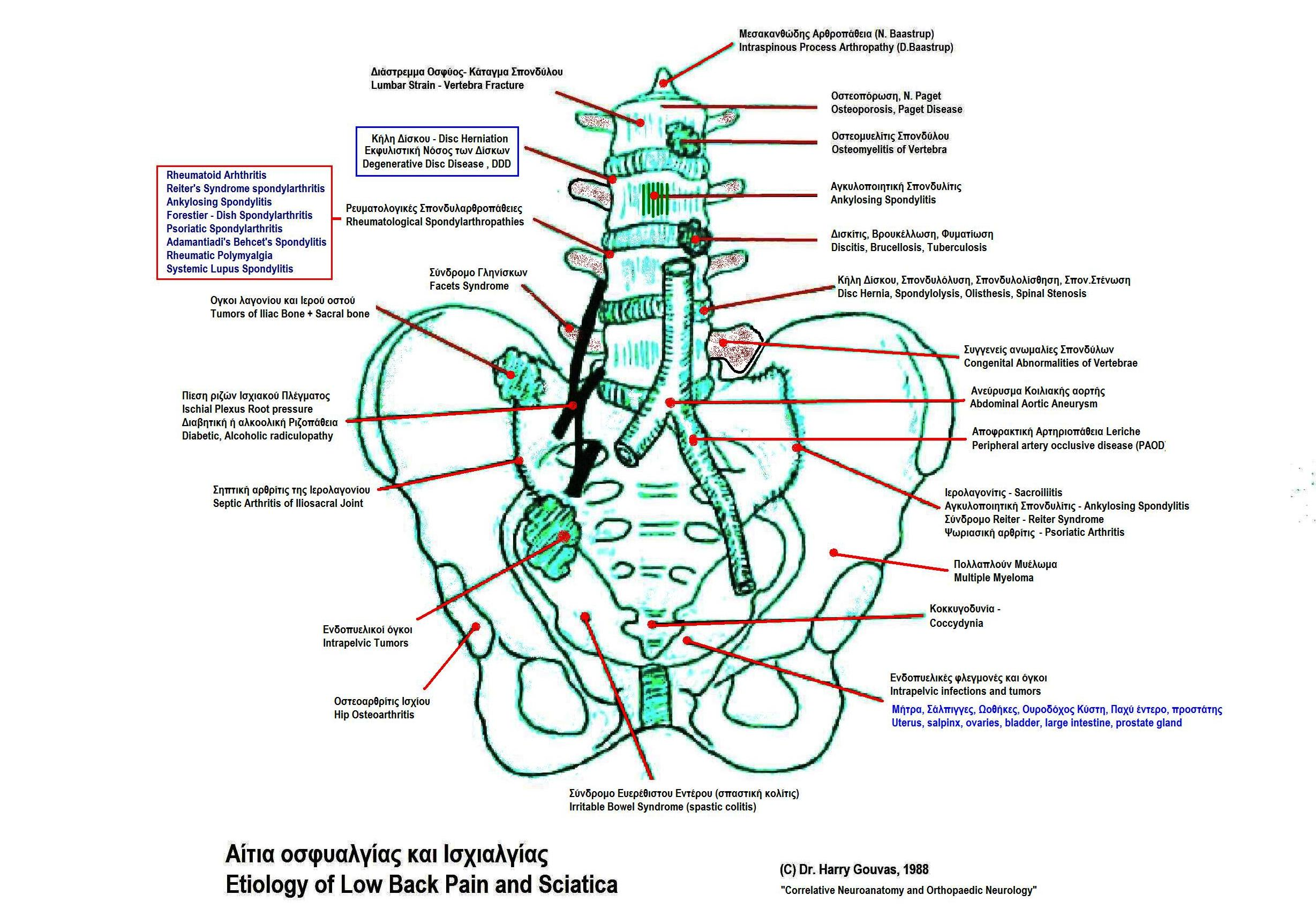 Etiology of Low Back Pain